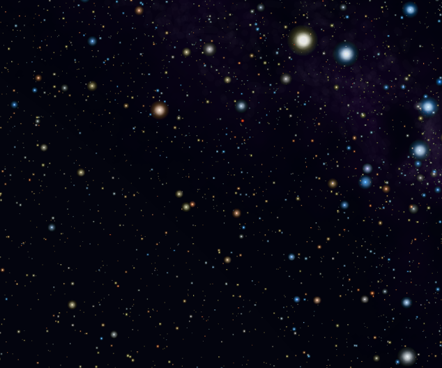 Image of Apus